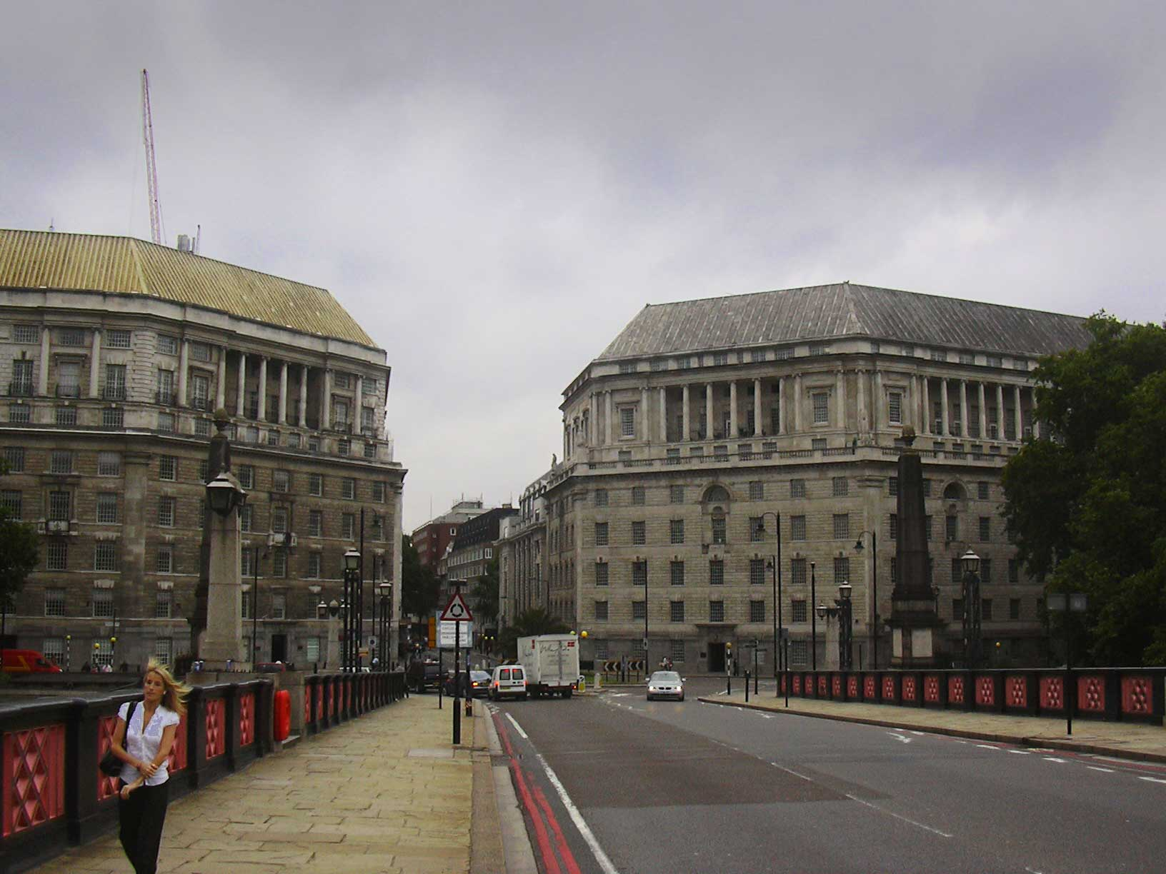 Shot from Lambeth Bridge, London - Imperial Chemical House on the right and Thames House on the left.